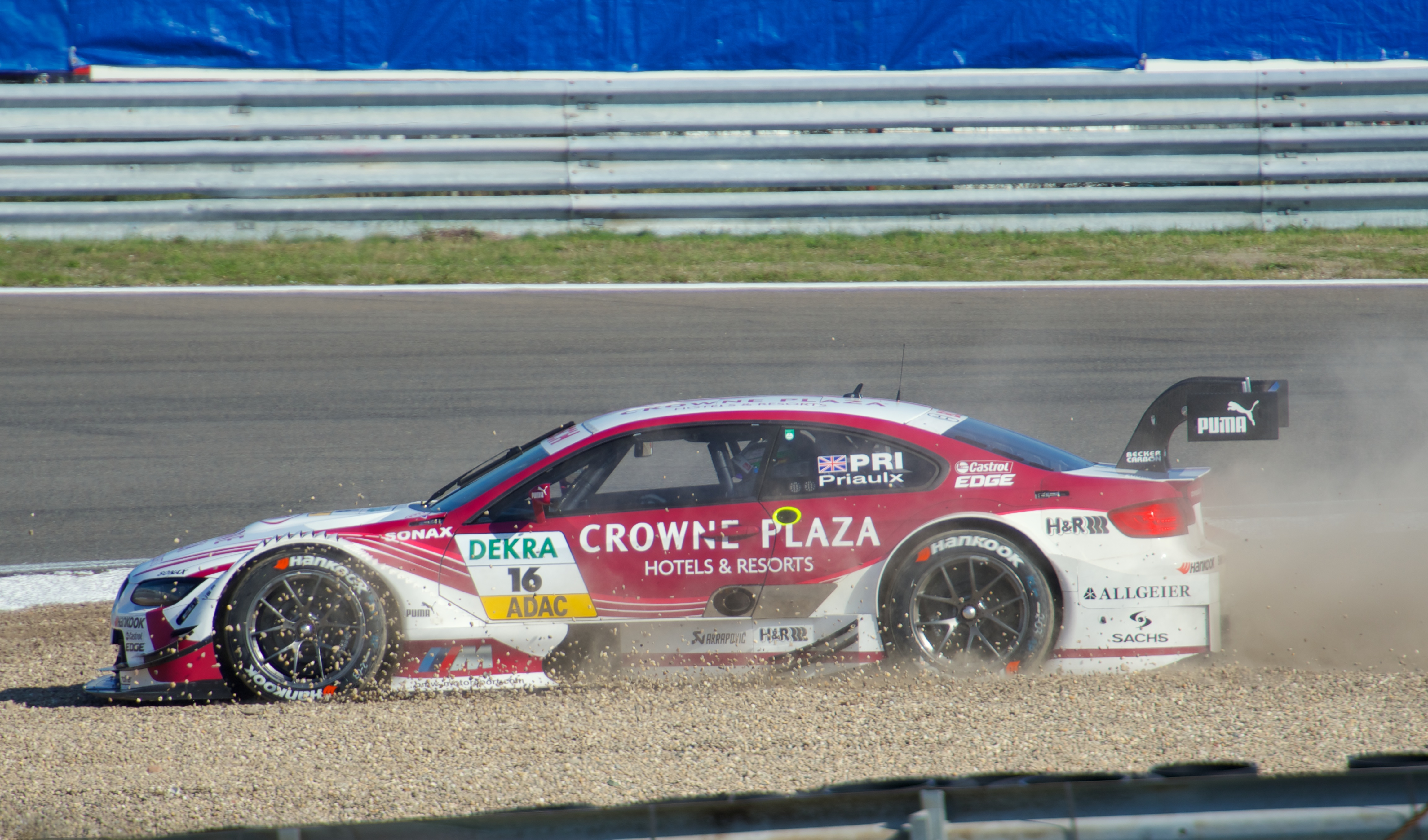 BMW M3 DTM (E92) of Team RMG